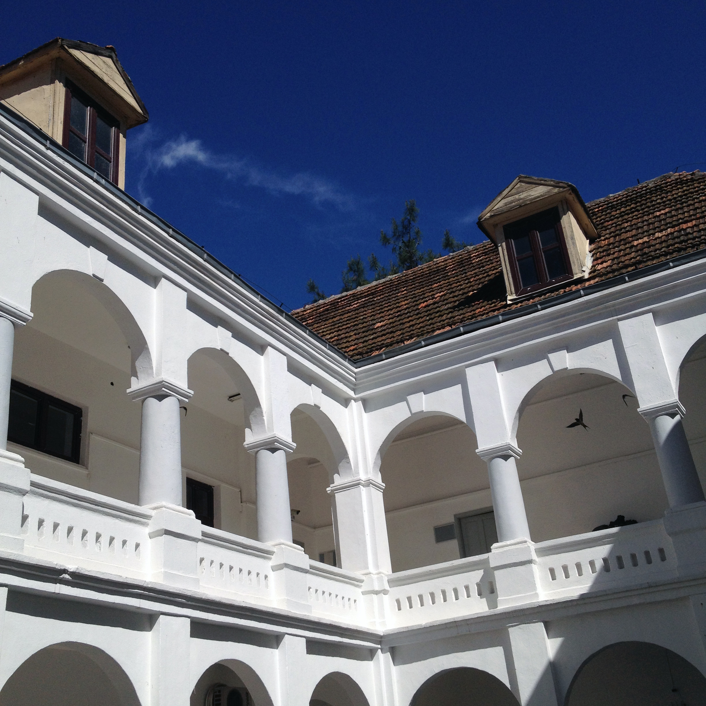 An interior terrace view of the building of Adana Science Highschool.